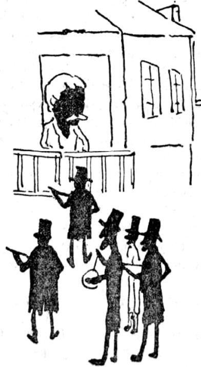 Cor de negri ("Black Men Choir"), press cartoon, illustrating a humorous quatrain. The reference is to the "United Opposition" riots of 1888, when various political pressure groups united against the governing, "collectivist", wing of the National Liberal Party. The mustachioed silhouette in the window is Conservative Party leader Lascăr Catargiu. The smaller figures "serenading" him (i. e. attempting to obtain his endorsement for their cause) are variously identified as D. Arghiropol, Nicolae Fleva, George D. Pallade, Tache Protopopescu and Valerian Ursian.